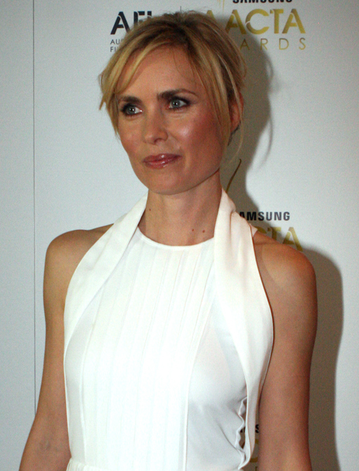 Australian actress Radha Mitchell at the AACTA Awards From Sydney, Australia, January 2012.